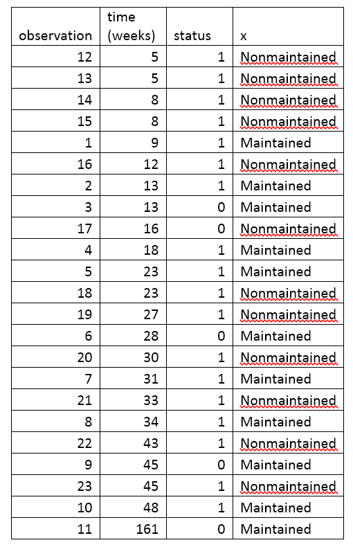 aml data set from R survival package sorted by survival time